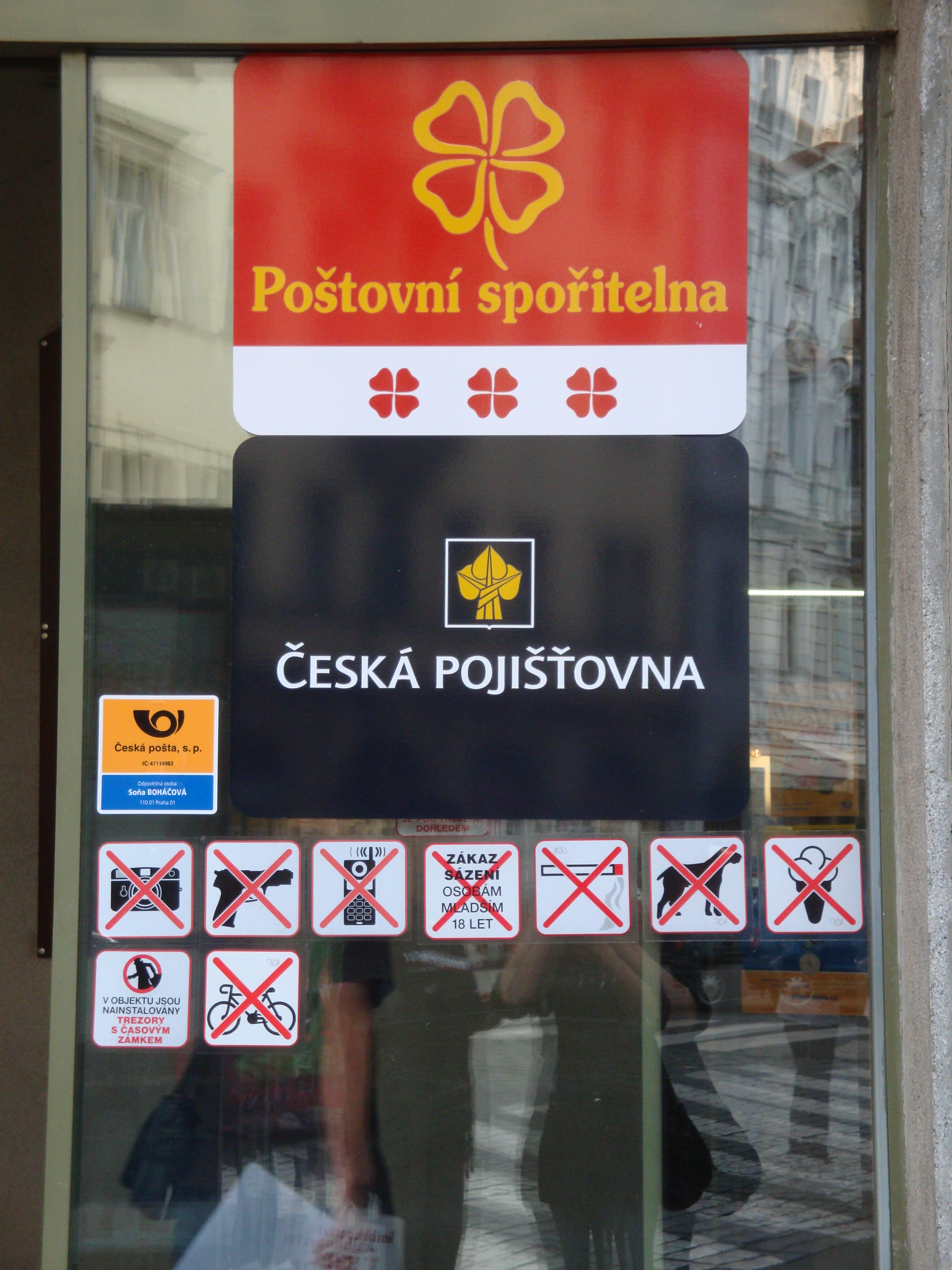 Firearms ban in Prague bank